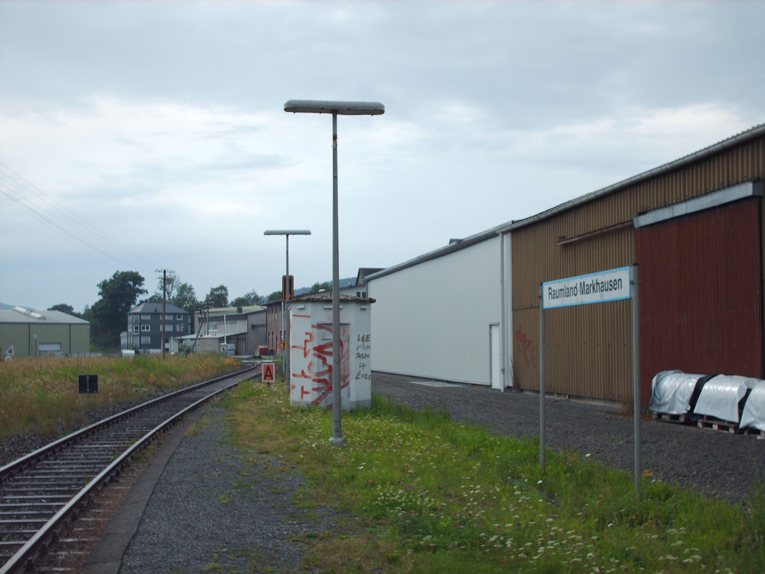 Raumland-Markhausen station, Bad Berleburg, Germany check usage